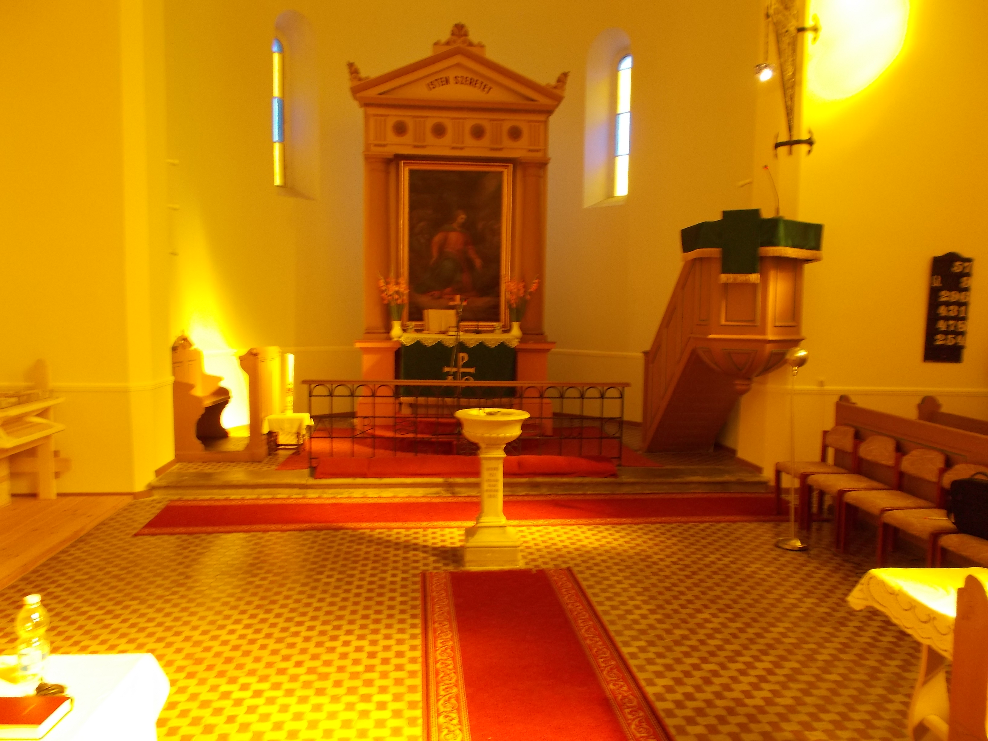 Evangelical church. Listed ID -1482. Neo-Gothic style. It was designed by Otto Sztehlo architect. The church was consecrated in 1896. - Szabadság Sq., Cegléd, Pest County, Hungary